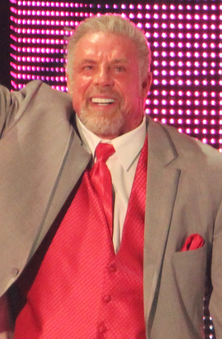 The Ultimate Warrior making an appearance, April 7th 2014